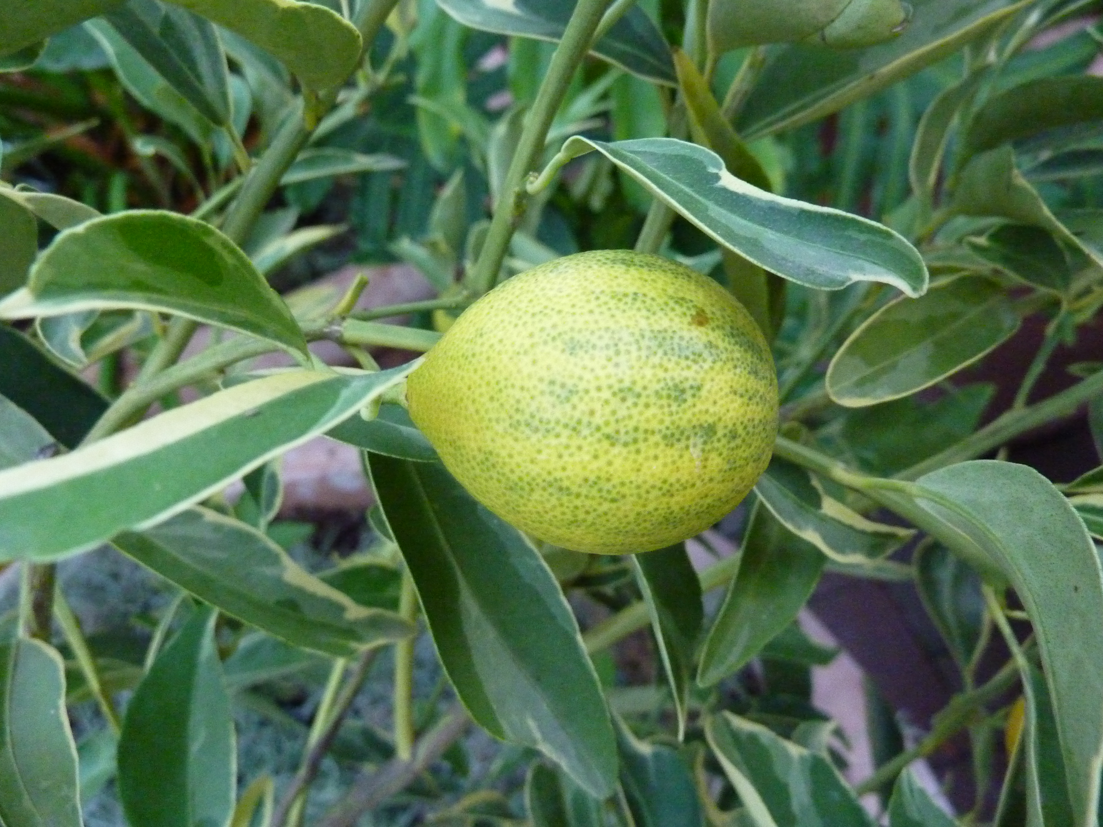 Kumquat, Citrus japonica 'Centennial Variegated', in the Linnean House of the Missouri Botanical Garden